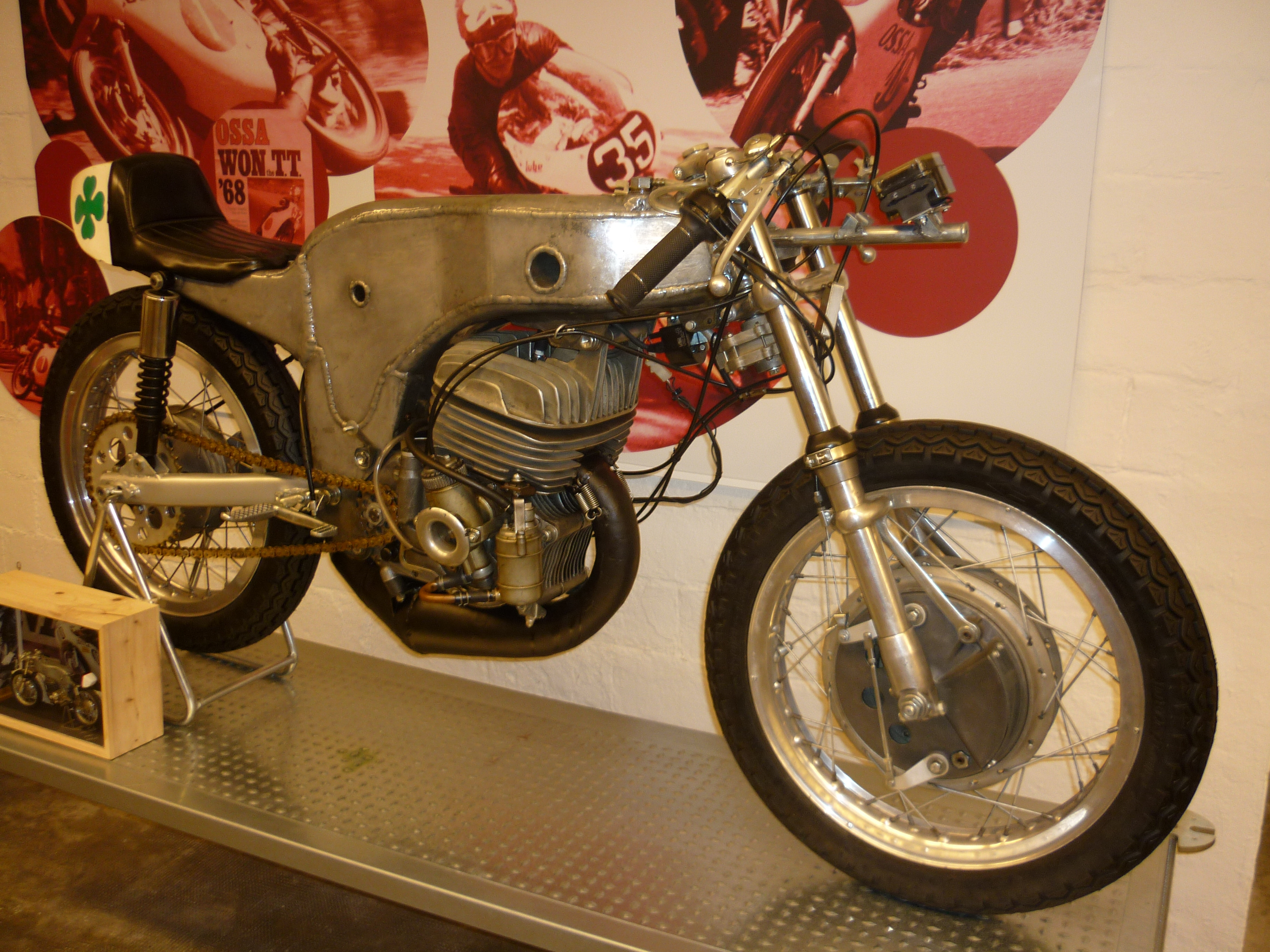 OSSA Monocoque 250cc, 1968. Created by Eduard Giró and ridden by Santiago Herrero, this bike was regarded as the fastest single cylinder motorbike at the time and won several Grand Prix between 1968 and 1970. Herrero died when he crashed while riding it at 1970 Isle of Man TT.